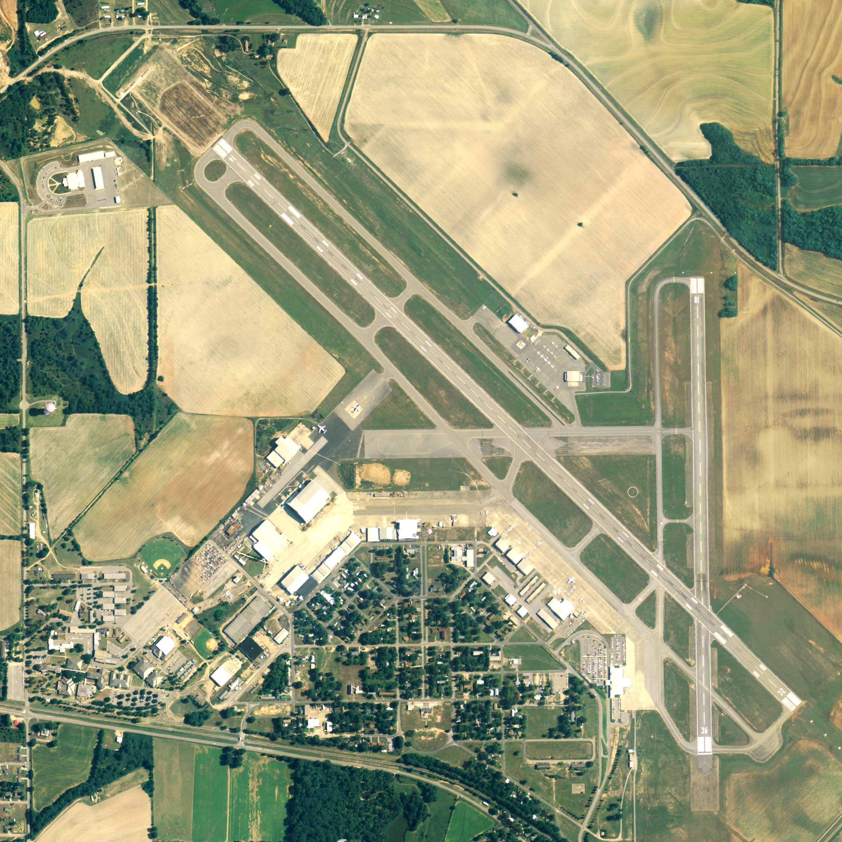 Aerial image of Dothan Regional Airport in Dothan, Alabama, United States